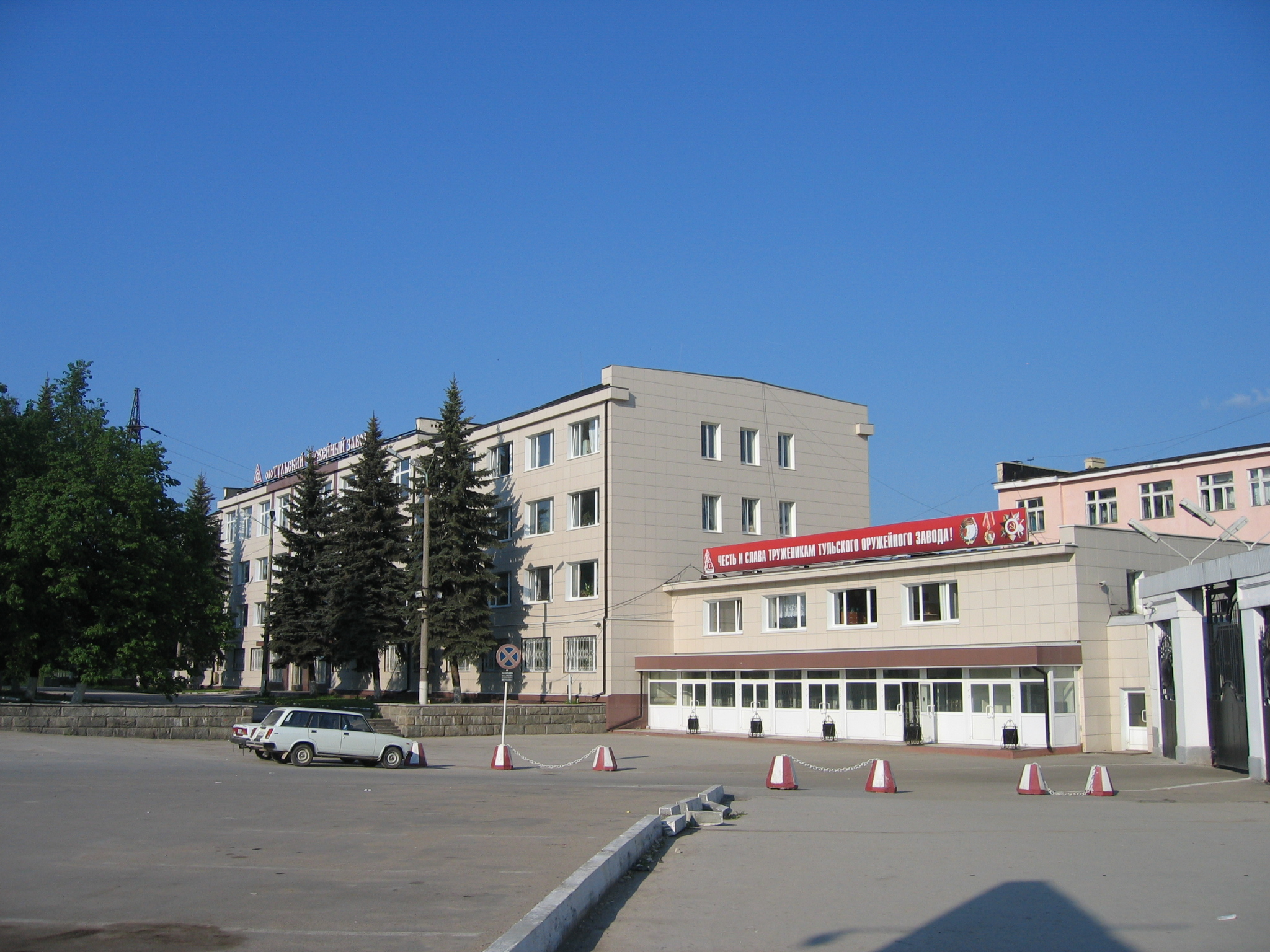 Tula weapon factory in Tula, Russia